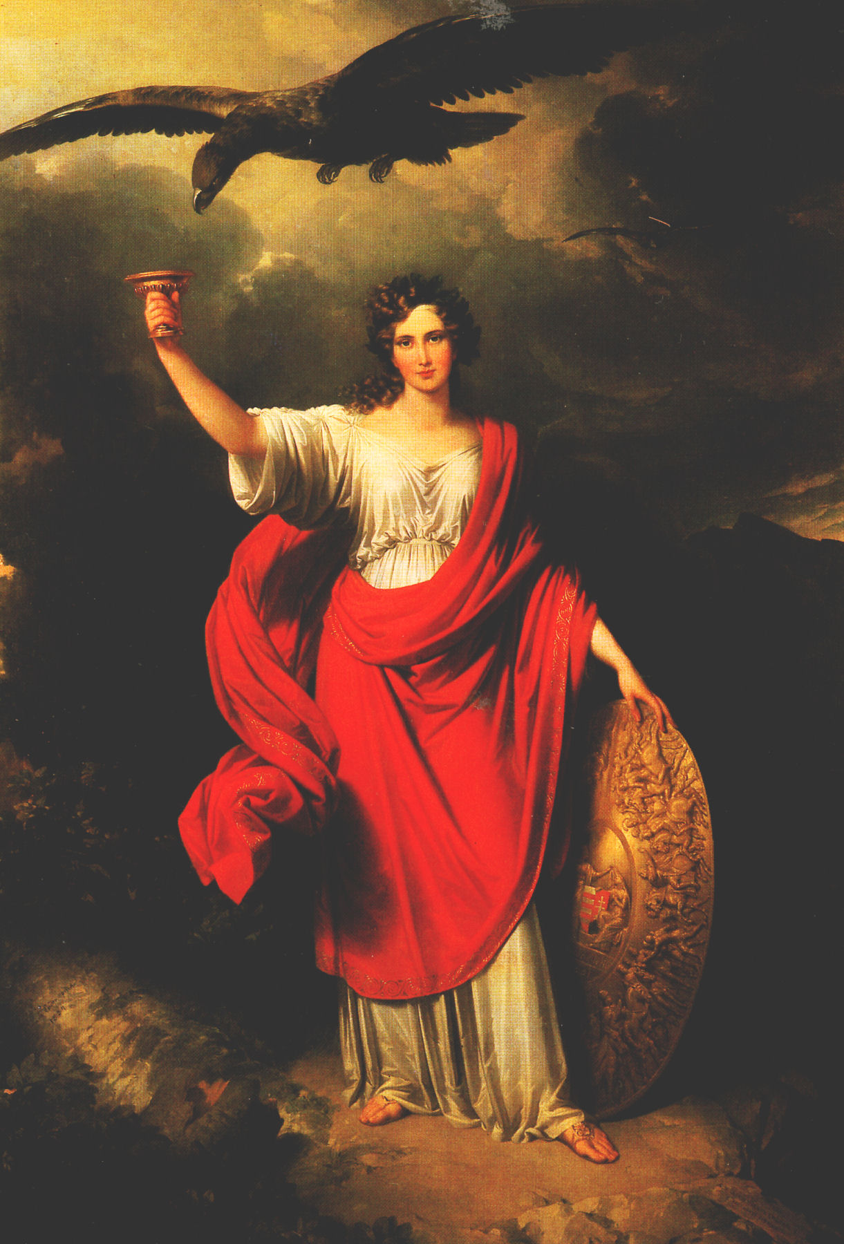 Allegory of the Hungarian Academy of Sciences